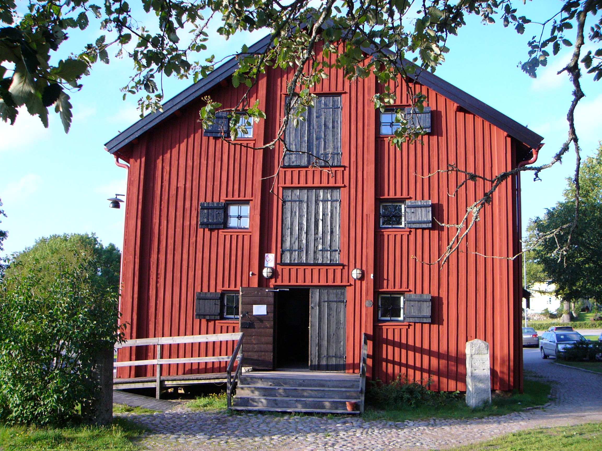 Old community granary in Tanumshede, Västra Götaland, Sweden.